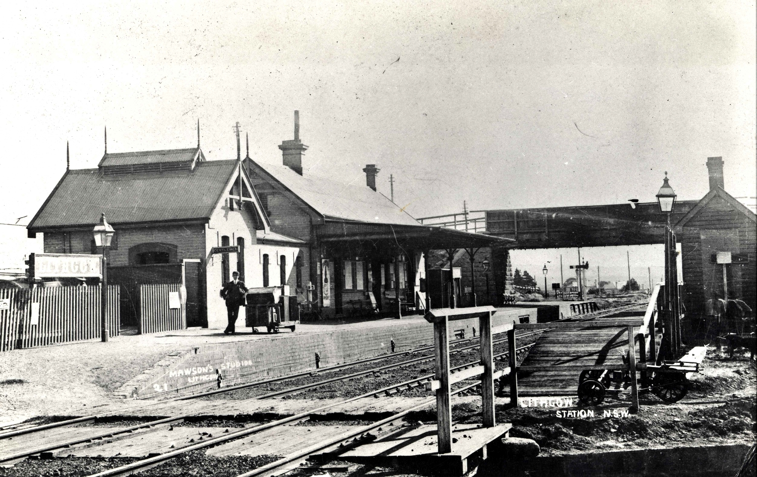 Lithgow Railway Station Dated: c.31/12/1890 Digital ID: 17420_a014_a014000754 Rights: We'd love to hear from you if you use our photos. Many other photos in our collection are available to view and browse on our website using Photo Investigator.